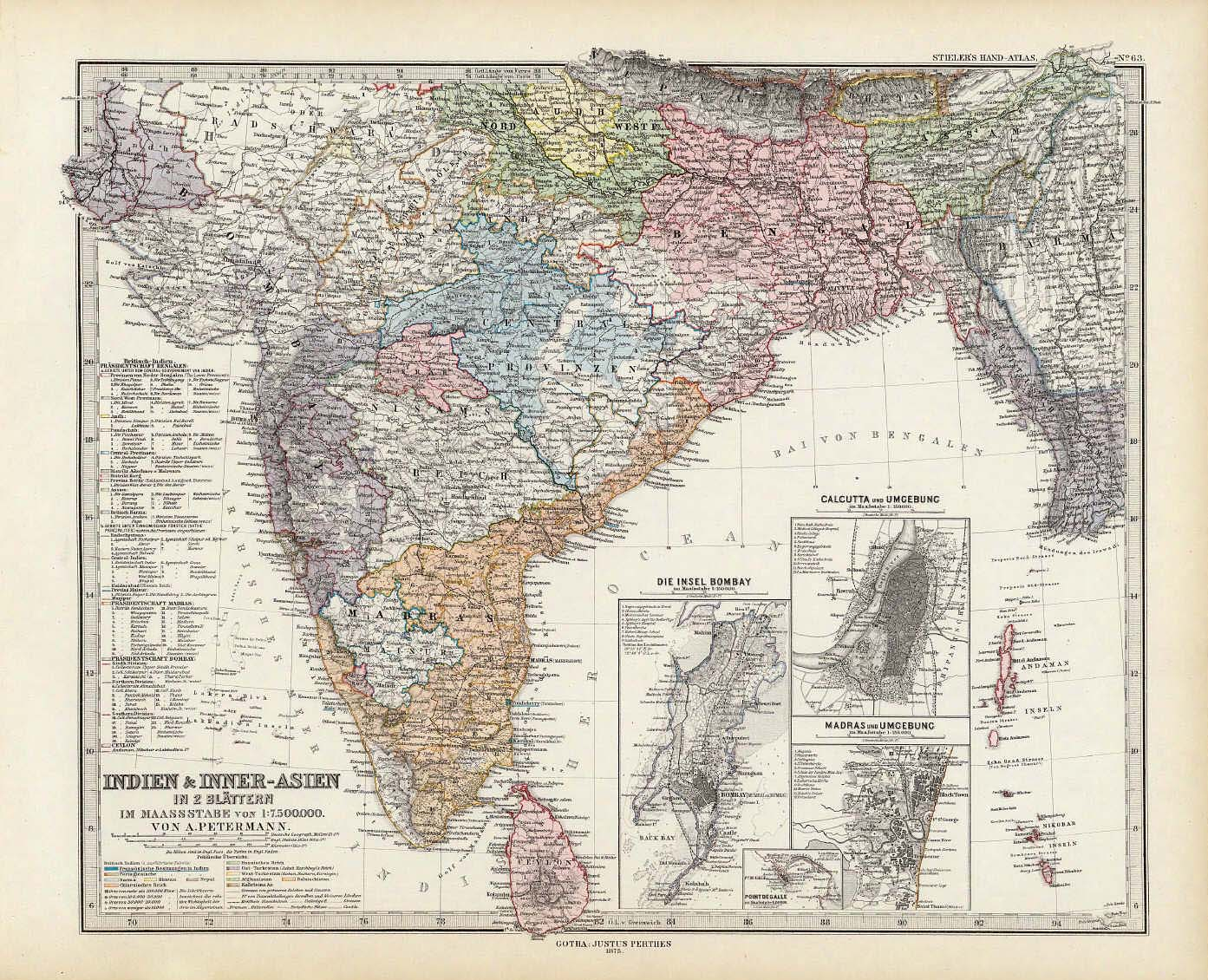 David Rumsey publicly licenses this historic image under the Creative Commons License — David Rumsey Historical Map Collection. In short: you are free to share and make derivative works of the file under the conditions that you appropriately attribute it, and that you distribute it only under a license identical to this one. Official license